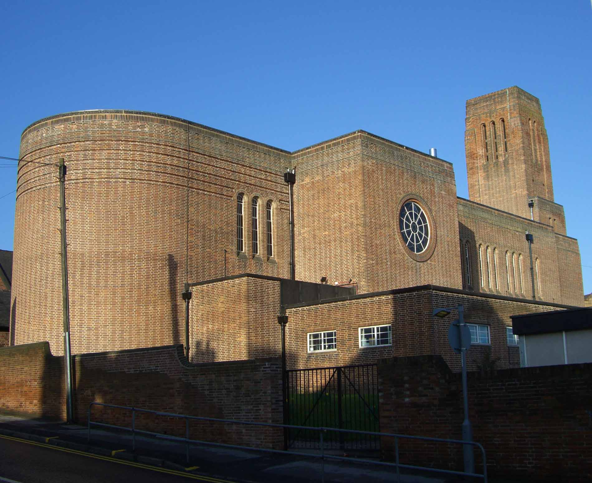 Roman Catholic church of the Sacred Heart, Forbes Road, Hillsborough, Sheffield, South Yorkshire, seen from the east from Ripley Street